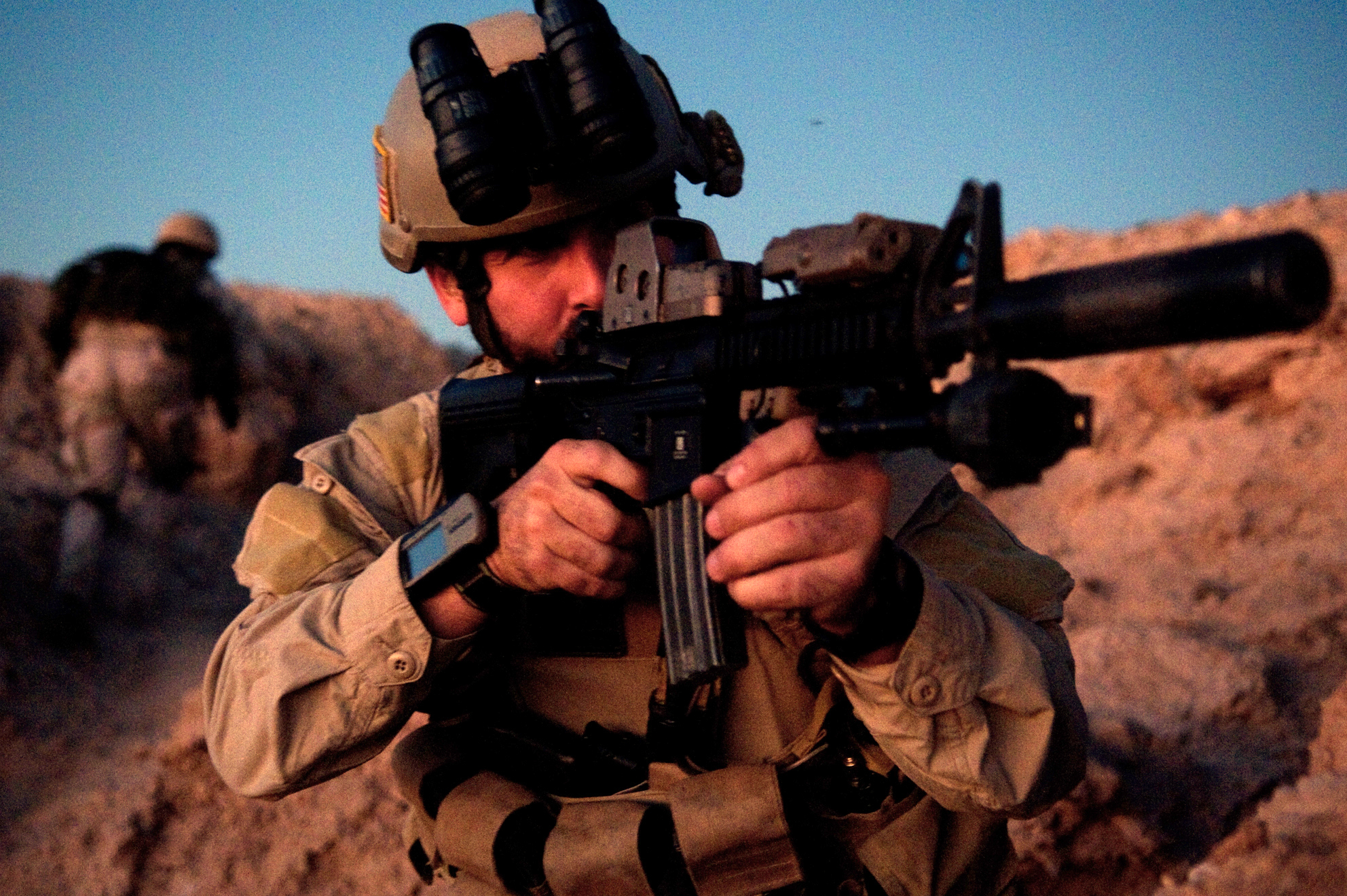 Seals in a desert area